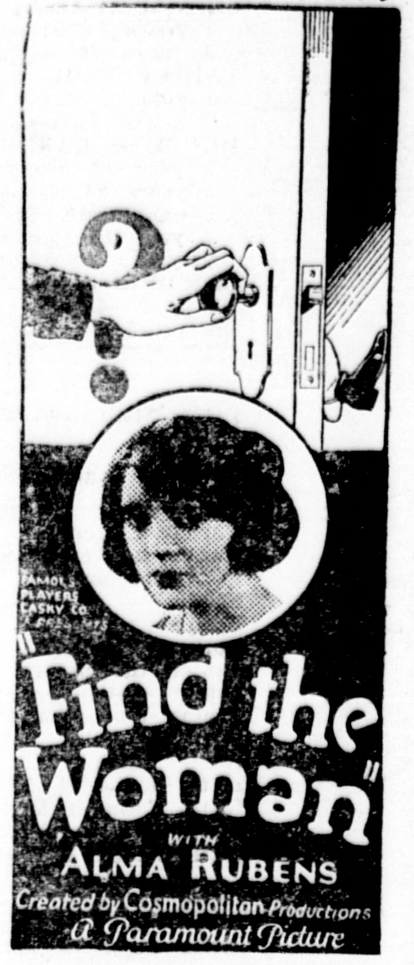 Find the Woman is a 1922 American silent mystery drama film directed by Tom Terriss and starring Alma Rubens. This is a newspaper advert for the film.